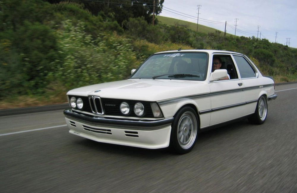 Example of BMW Hartge H3 323irs